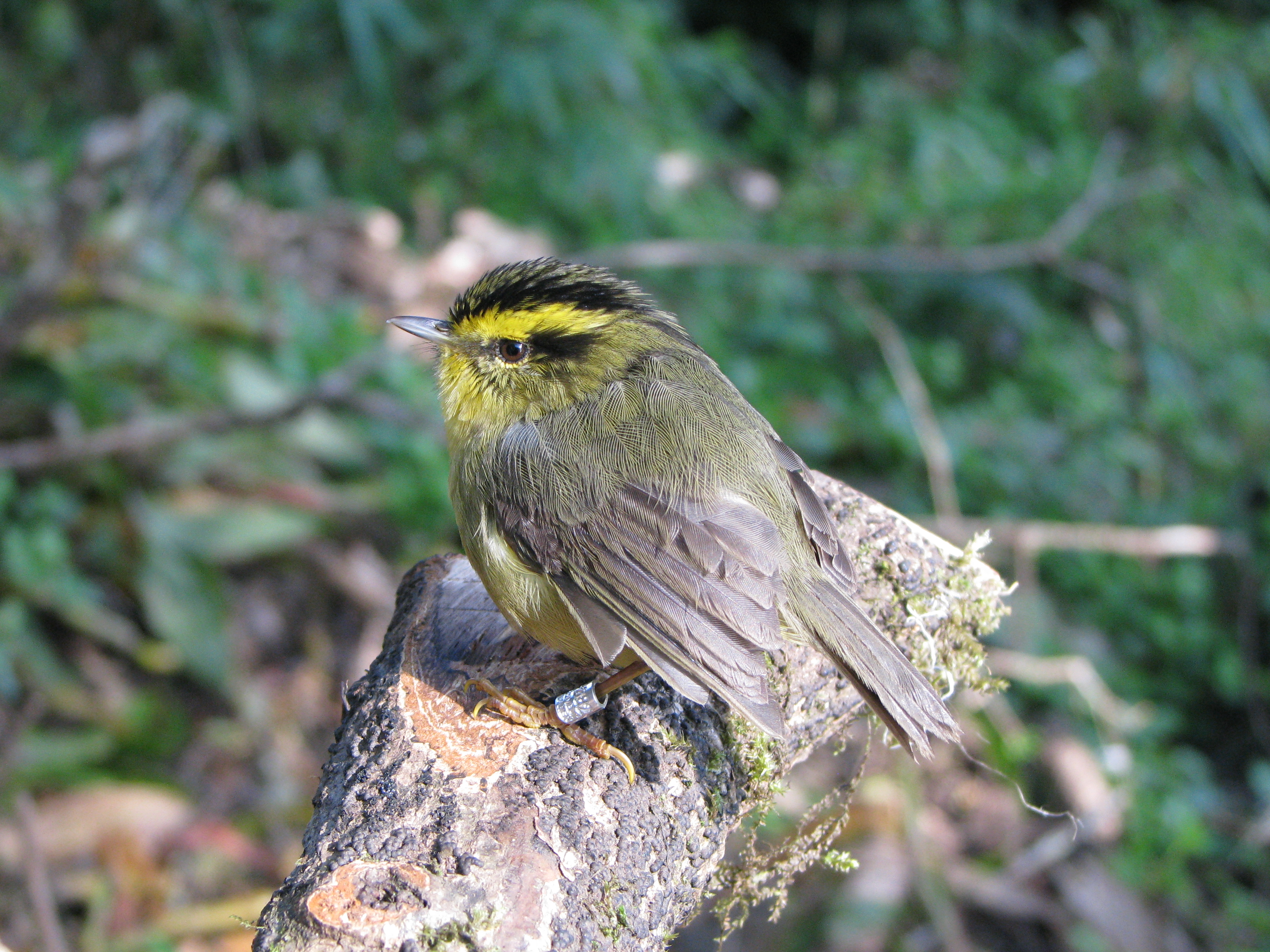 Yellow-throated Fulvetta